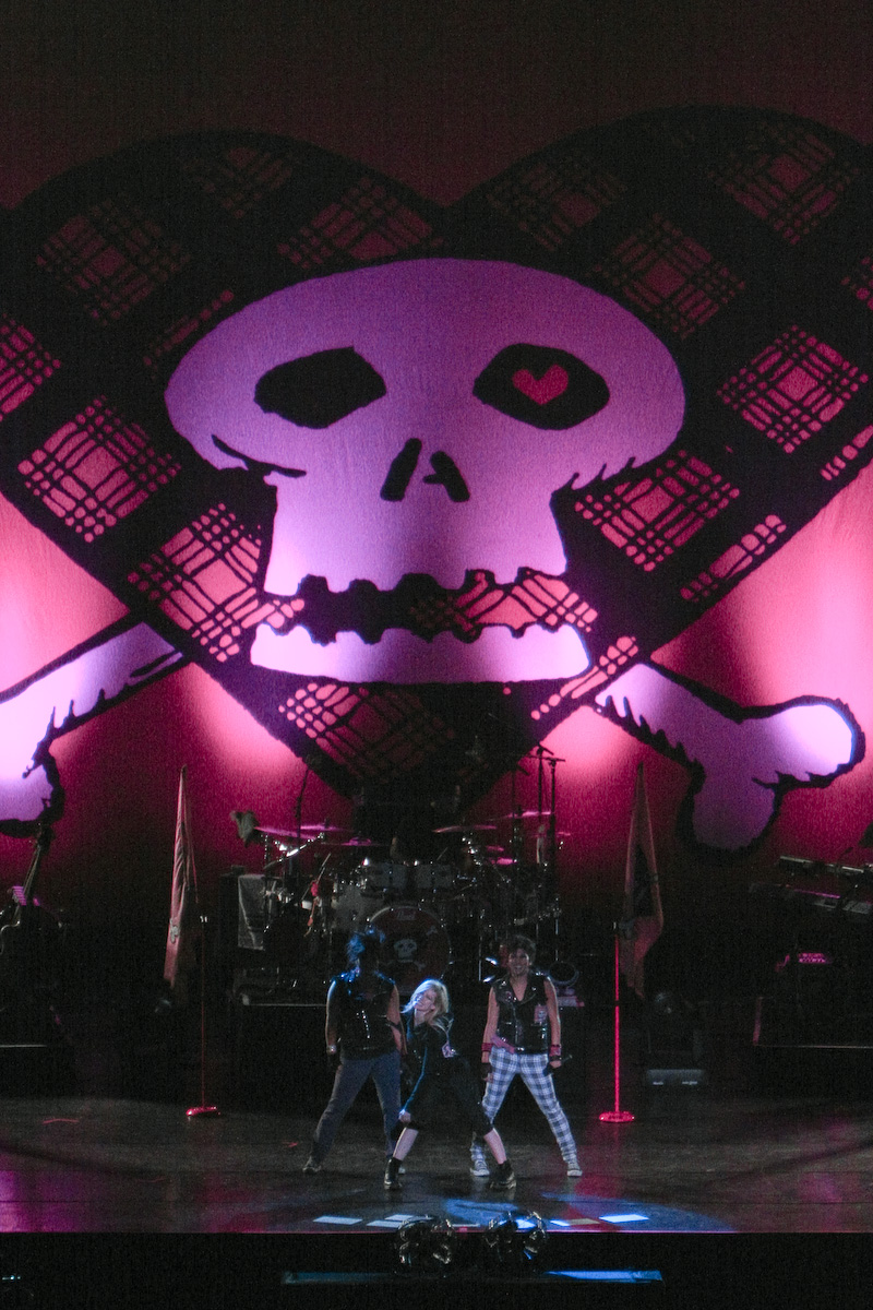 The Best Damn Tour Simboly